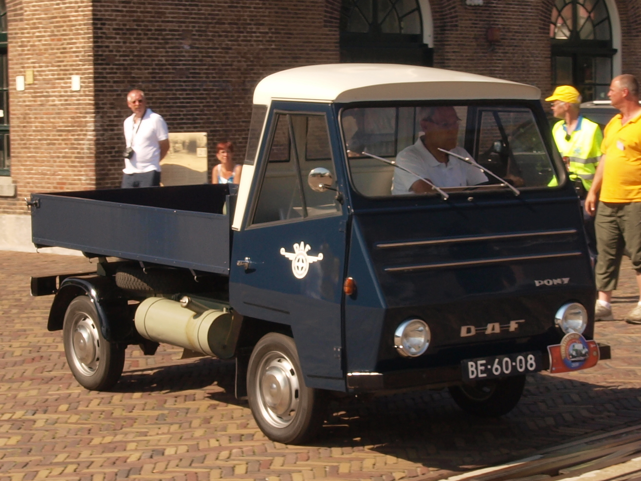 Photographed at Den Helder, The Netherlands. OLYMPUS DIGITAL CAMERA